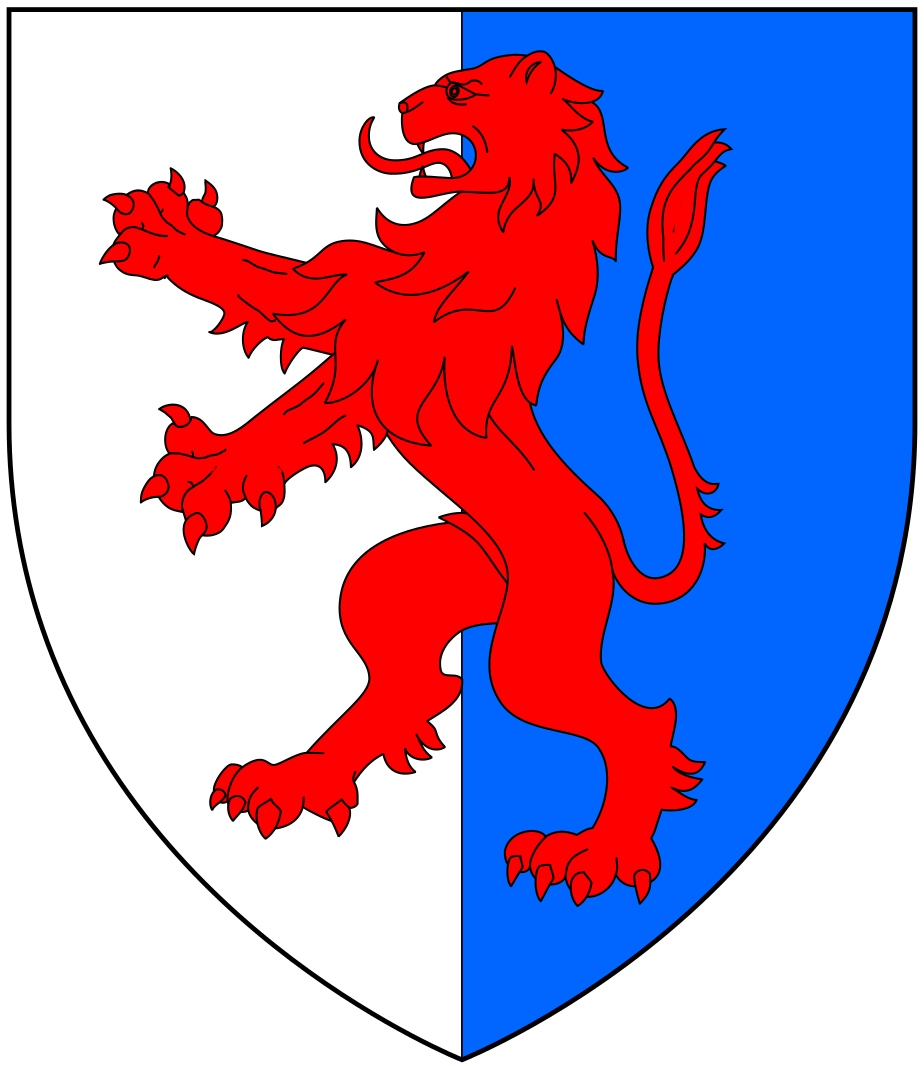 Arms of Elford of Sheepstor, Devon: Per pale argent and azure, a lion rampant gules (Source: Vivian, Lt.Col. J.L., (Ed.) The Visitation of the County of Devon: Comprising the Heralds' Visitations of 1531, 1564 & 1620, Exeter, 1895, p.329). For a surviving example of these arms see the large plaster overmantel in Coombe Barton, Roborough, (Torridge) showing Wollocombe (Argent, three bars gules) impaling Elford, apparently for Roger Wollocombe (1632-1704) (4th son and eventual heir to his father John Wollocombe (1598-1663) of Coombe) to Gertrude Elford (d.1681), a daughter and co-heiress of John Elford of Sheepstor